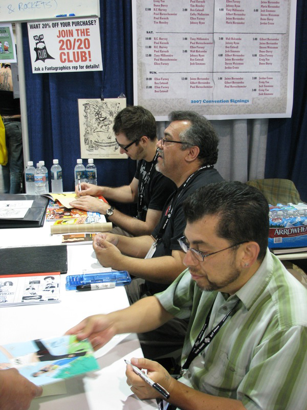 Gilbert y Jaime Hernandez at ComicCon 2007